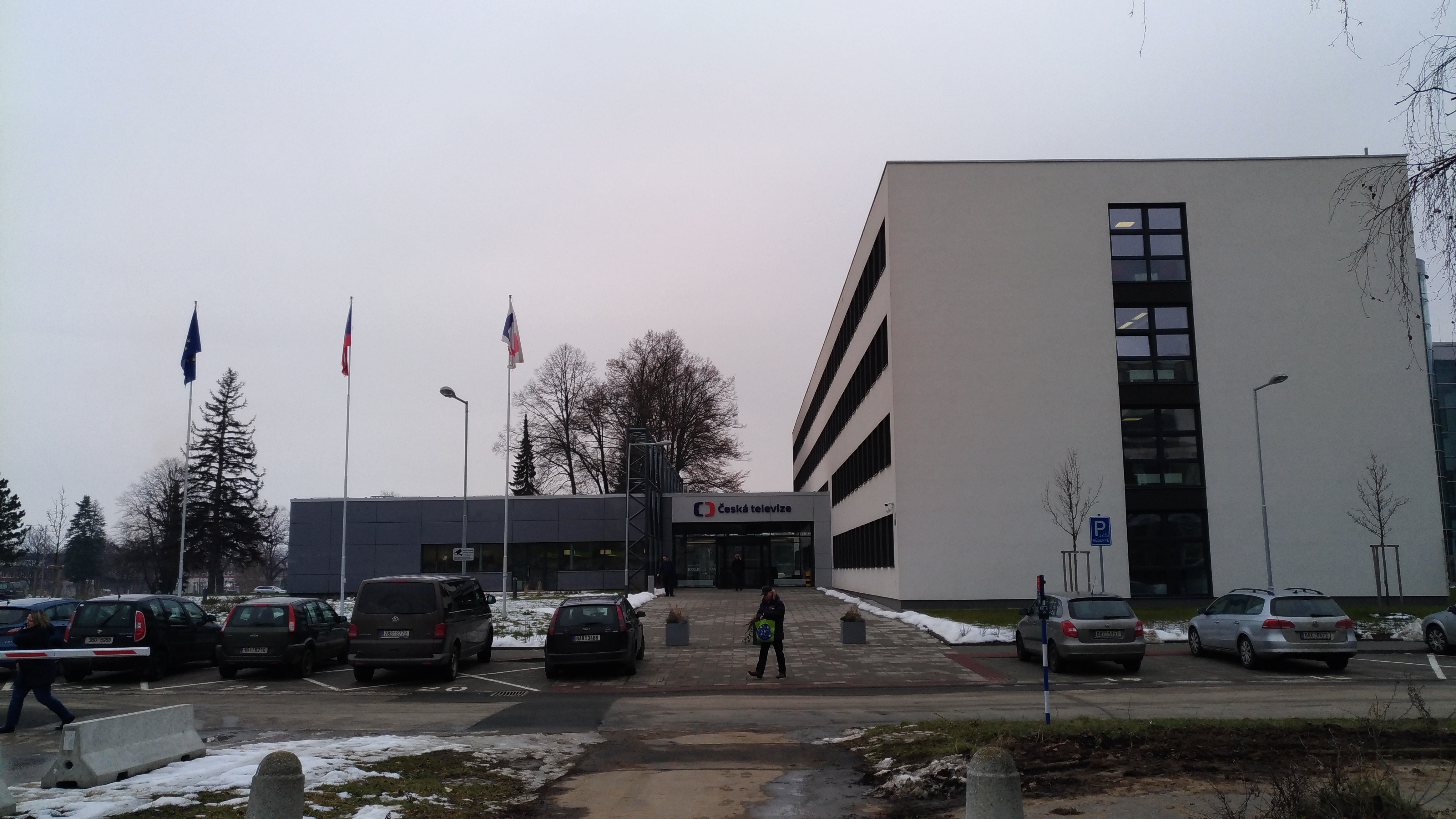 Czech Television in Brno, new headquarters (Líšeň)